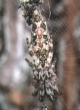 female Cyclosa angusta from Okinawa.